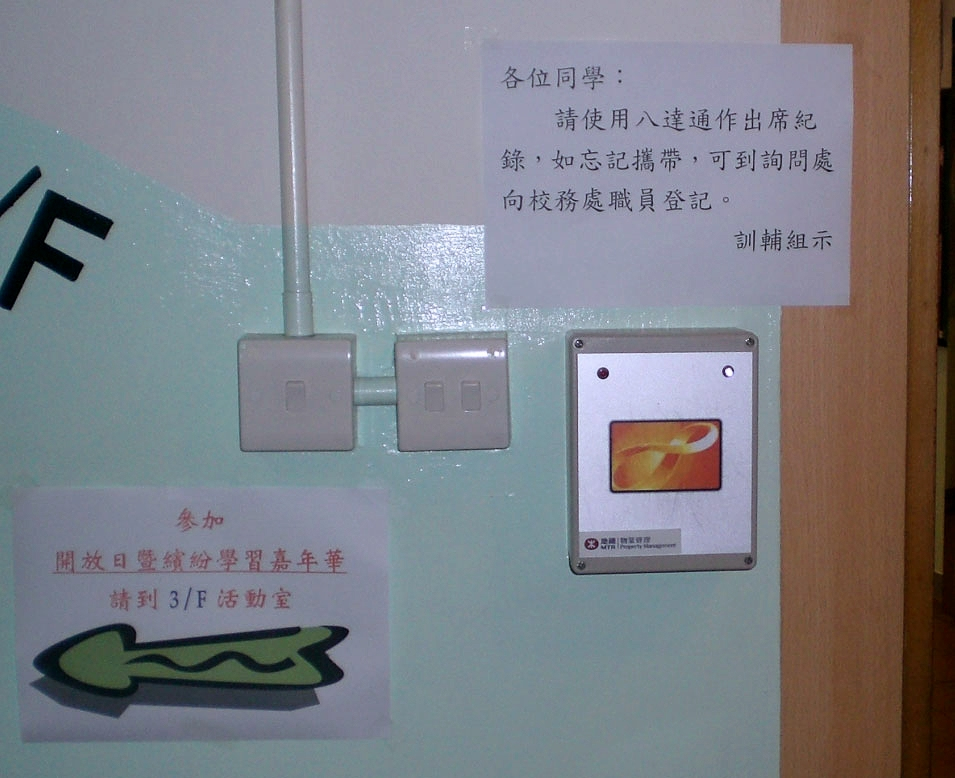 Description= 李陞小學 2007年4月28日(星期六) 開放日 Open Day. Source= self-made Author= ManHamTUNG